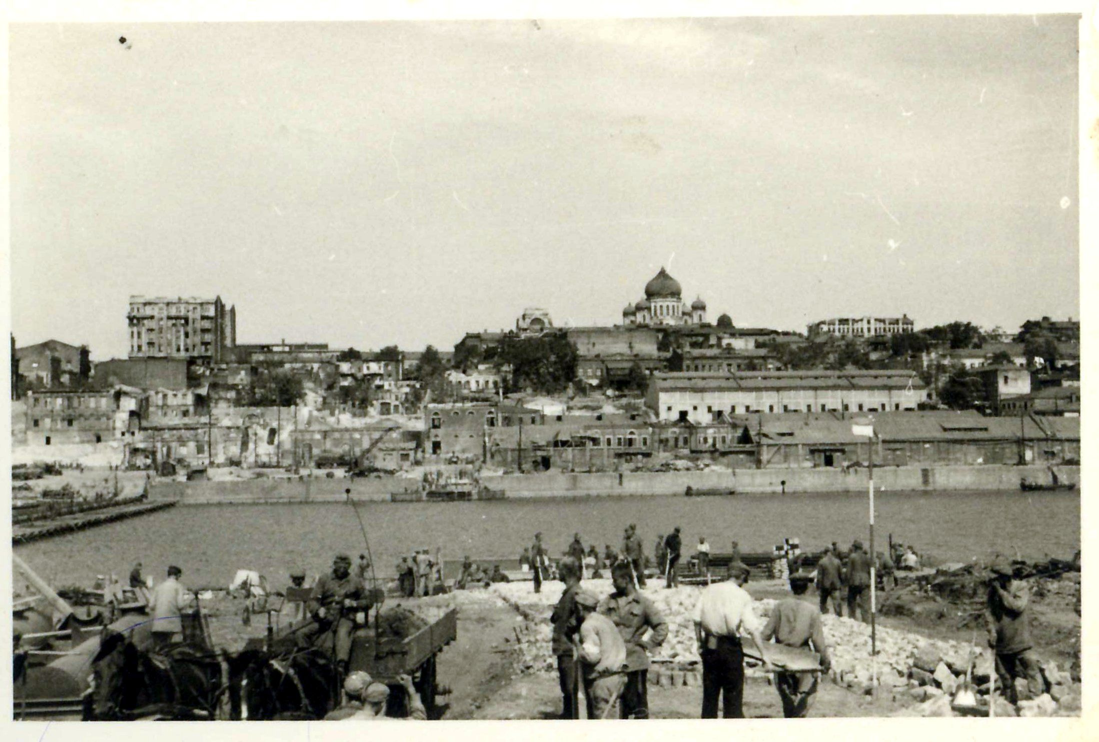 ostov on Don. View of the bridge and the city. 1942